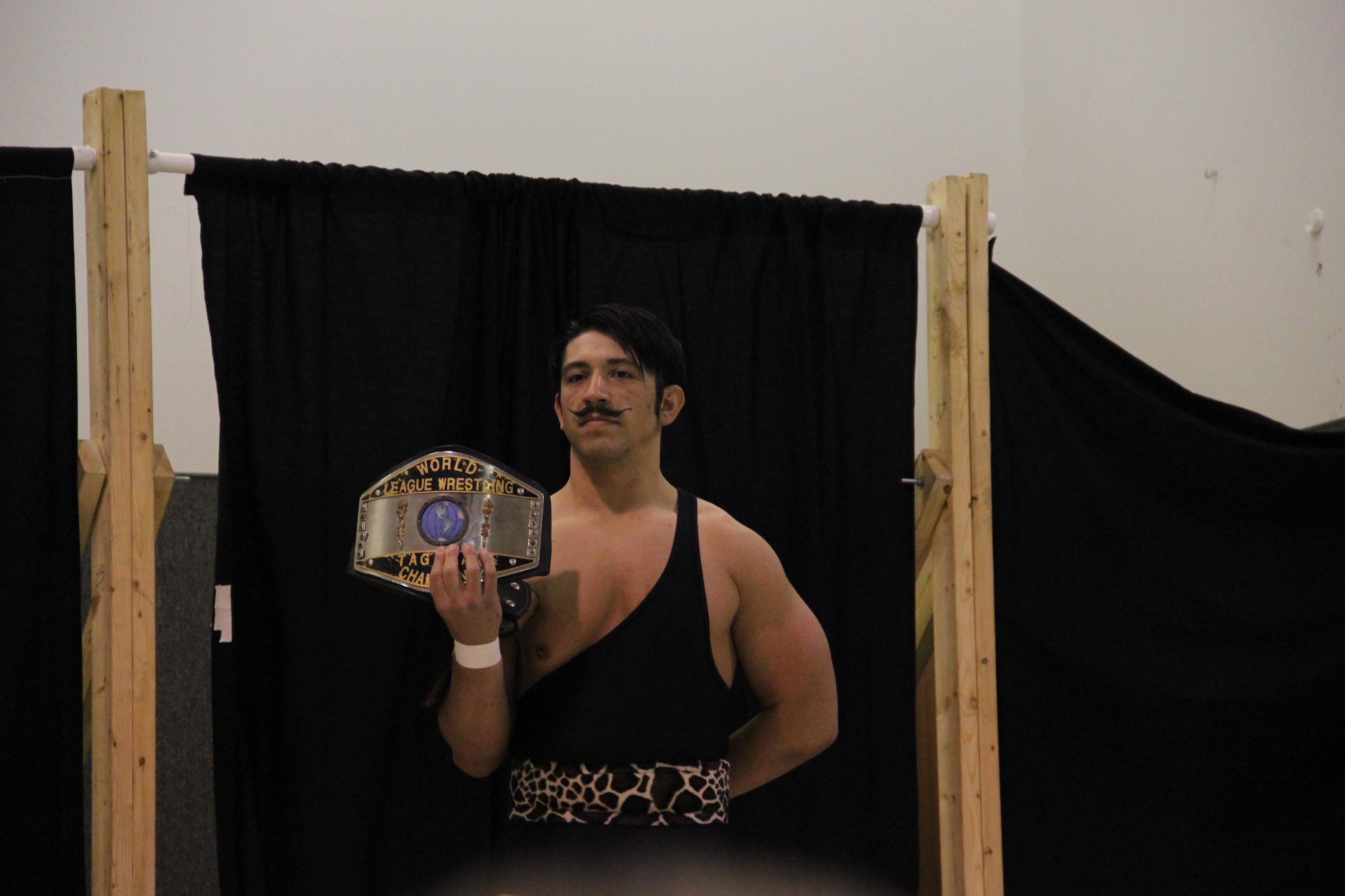 Ryan Drago in april 2013 with World League Wrestling Tag Team Belt.